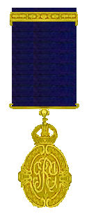 Kaiser-I-Hind of British India George V issue